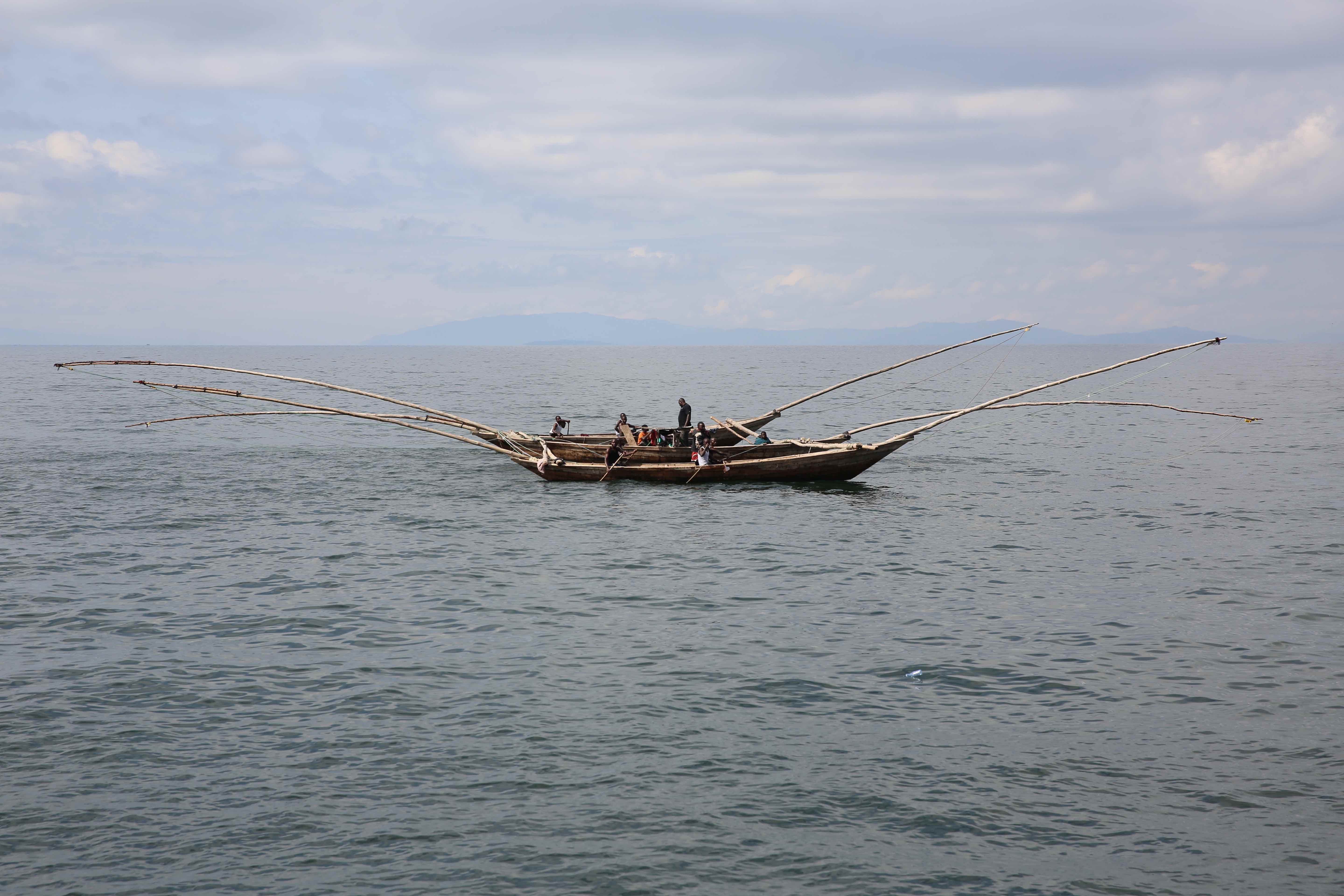 26 mars 2015 : lac Kivu - Nord Kivu - RD Congo : une barque traditionnelle de pêcheurs sur le lac Kivu. Photo MONUSCO/Abel Kavanagh 26 March 2015: Lake Kivu - North Kivu - DR Congo: a traditional fishermen’s boat on the Lake Kivu. Photo MONUSCO/Abel Kavanagh